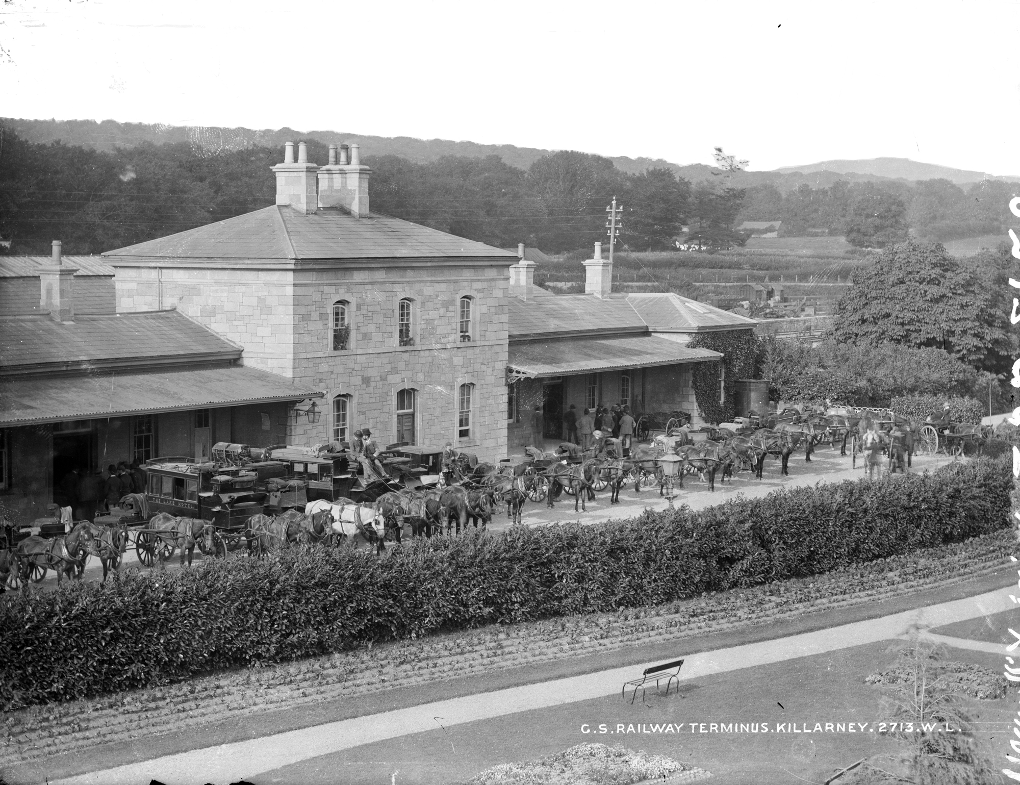 The Great Southern Railway Terminus in Killarney, Co. Kerry. Will be in Limerick for a couple of days with our WWI Family History Roadshow , so recycling these 3 Kerry and Limerick images from our Munsterset that have been viewed, but have never received any comments or input from you. Hope they'll keep you busy until I'm back at Library Towers... Date: 1890s? NLI Ref.: L_ROY_02713